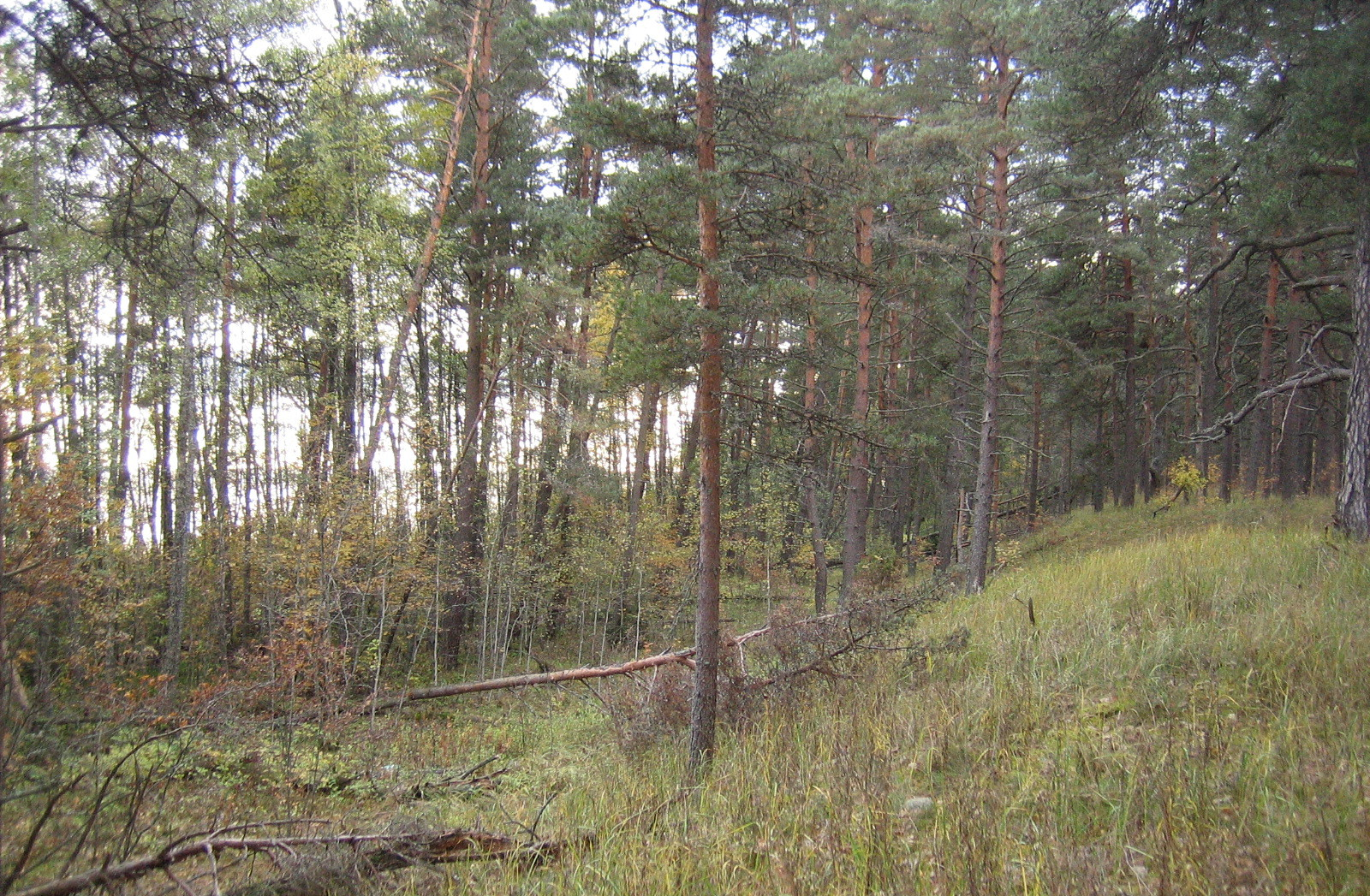 Järvevälja landscape protection area, pictured near Raadna village